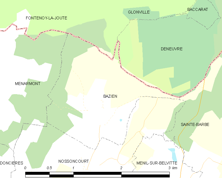 Map of French municipality Bazien